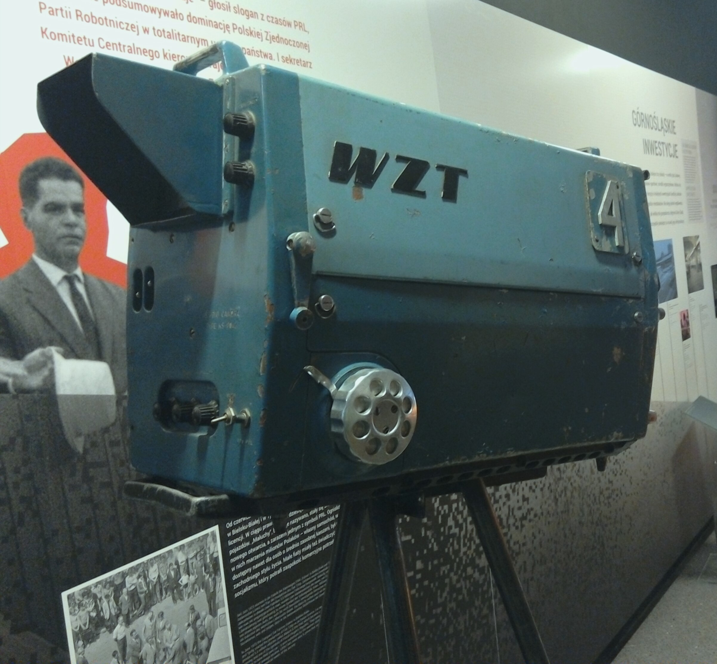 Studio Camera KS-0042 TV studio camera, producer WZT of Poland, produced in the 60s and 70s